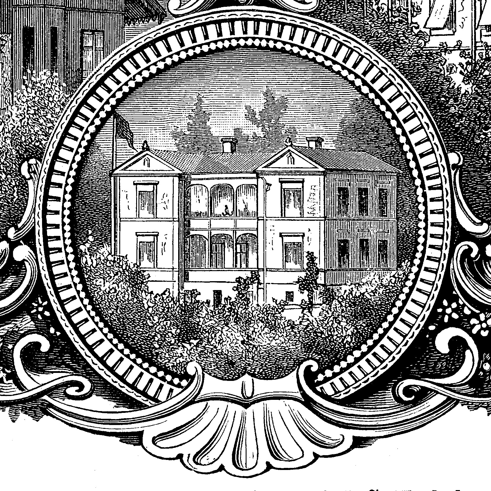 Bath villa and summer house Villa Walhall (also spelled Villa Valhall) in Mariekälla, Södertälje, Sweden